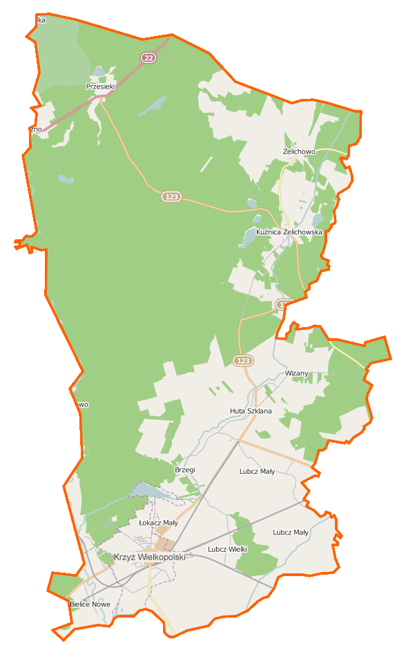 Map of Gmina Krzyż Wielkopolski, Poland This map of Krzyż Wielkopolski (gmina) was created from OpenStreetMap project data, collected by the community. This map may be incomplete, and may contain errors. Don't rely solely on it for navigation. Border coordinates53.045315.9384←↕→16.140452.8488